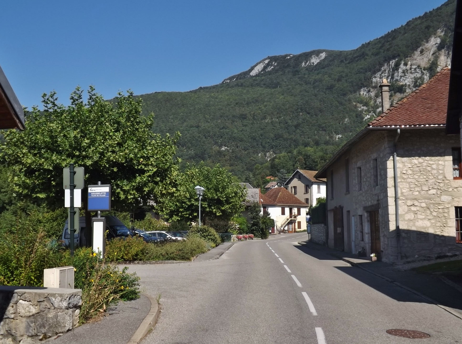 Sight of the main road crossing Aiguebelette-le-Lac village, in Savoie, France.